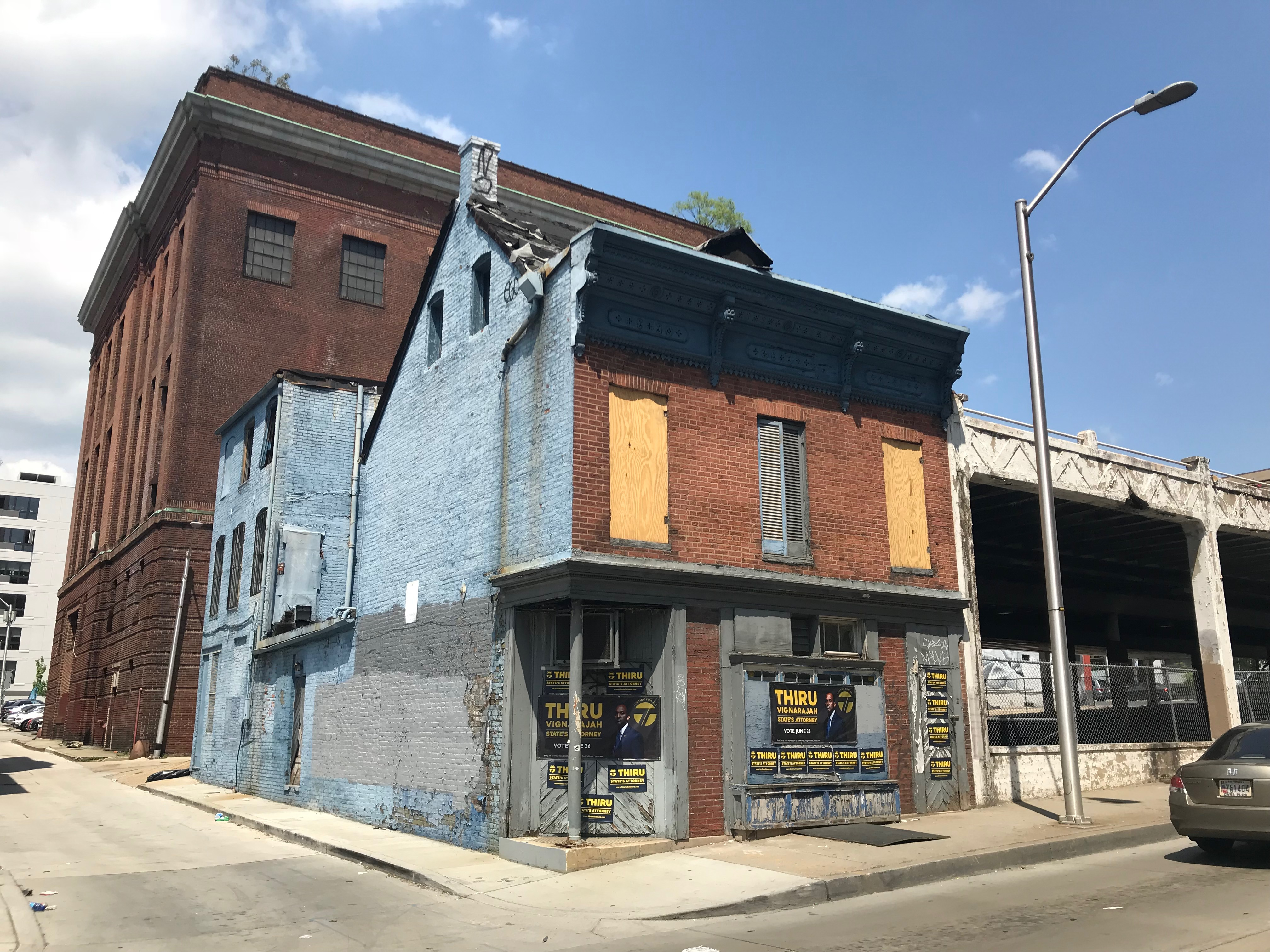 Photograph by Eli Pousson, 2018 May 7.